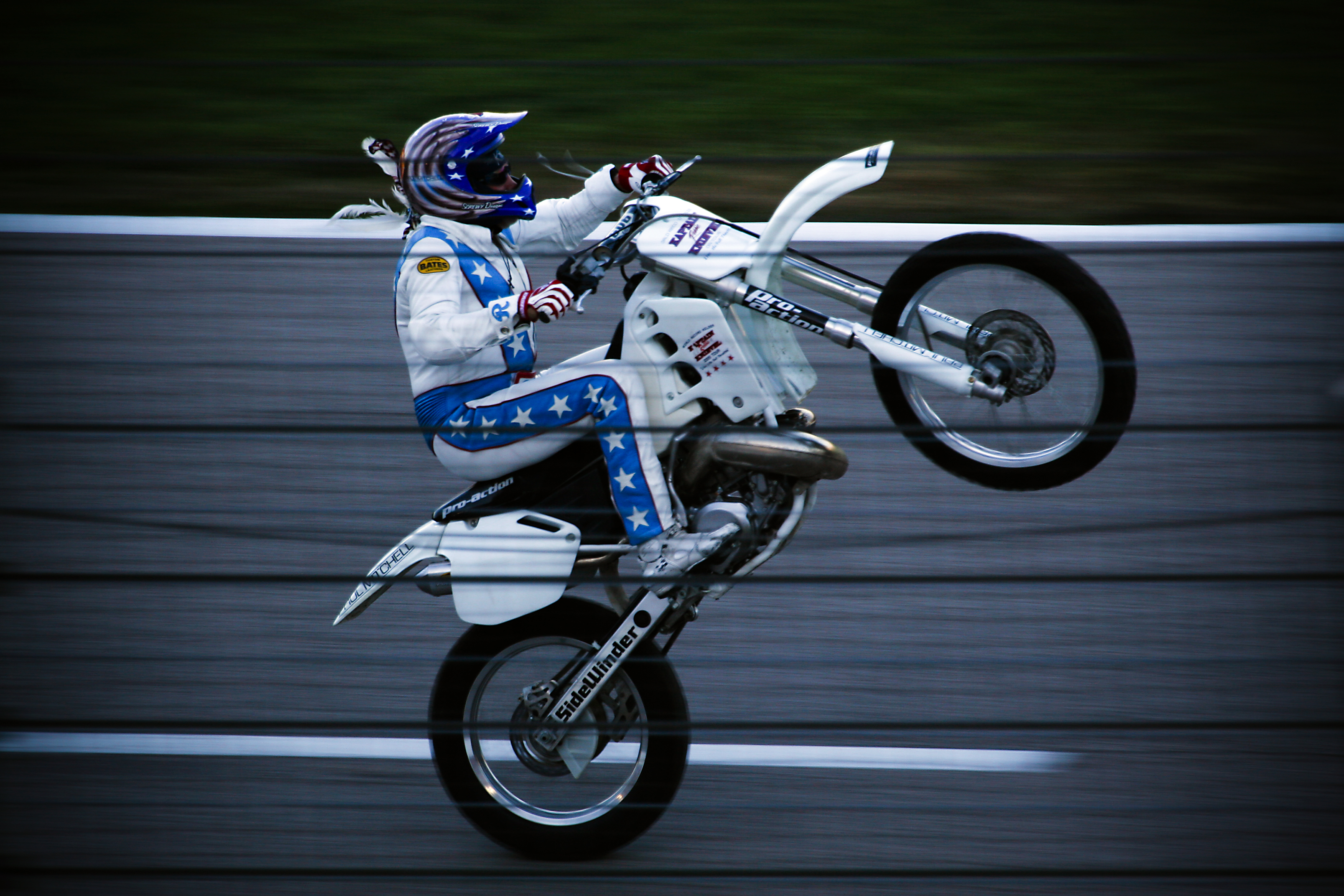 Kaptain Robbie Knievel showing off before the Bombardier Learjet 550 at Texas Motor Speedway on 07 June 2008